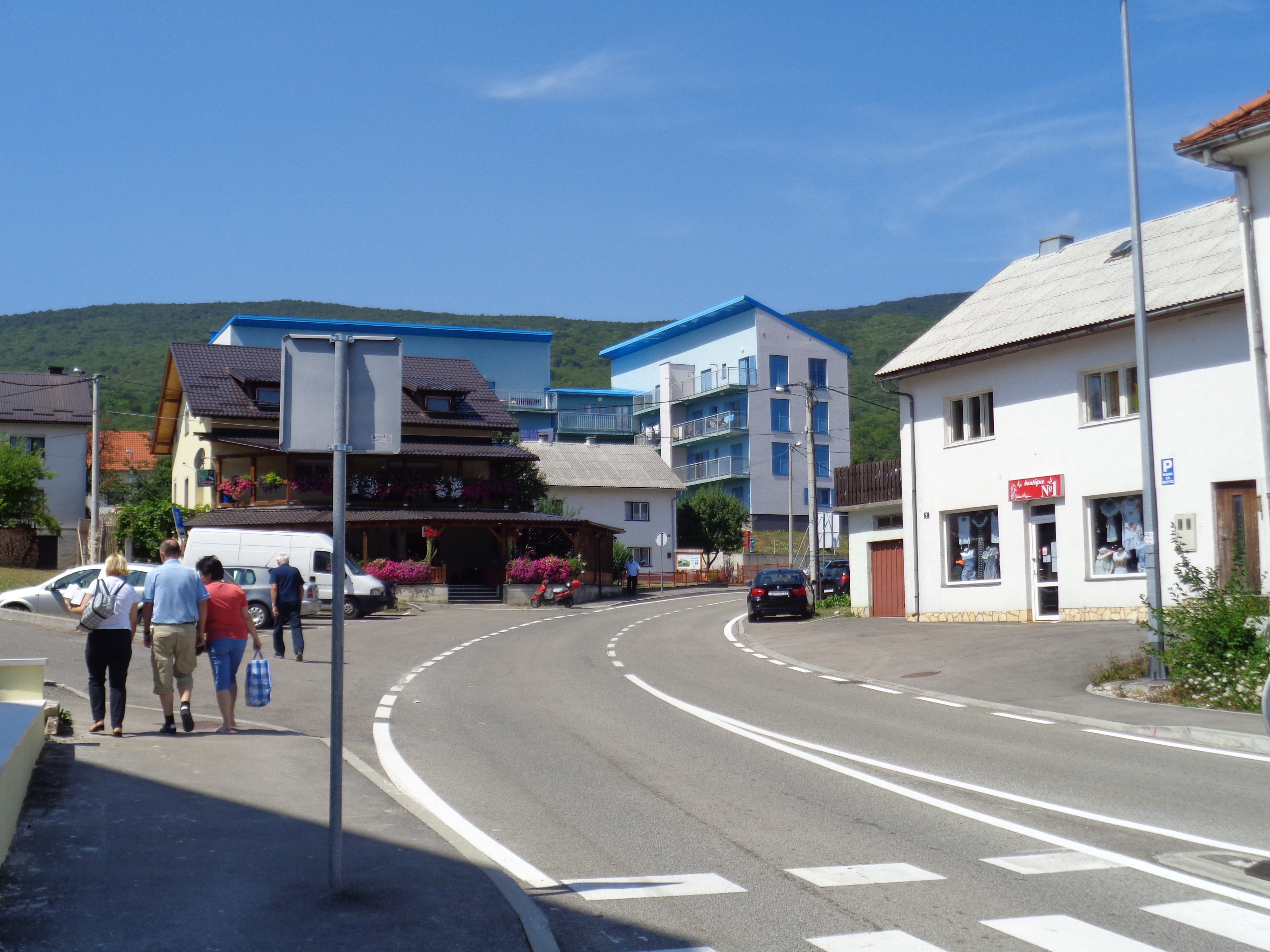 Korenica, seat of the Municipality of Plitvička Jezera, Lika-Senj County, Croatia - street D25